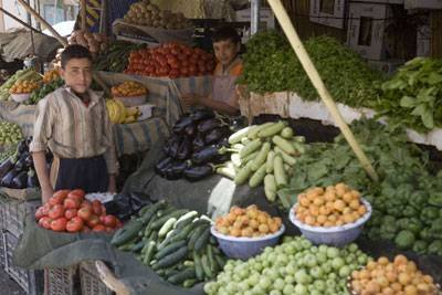 Vegetable stand selling local and imported produce in Hadith, Iraq